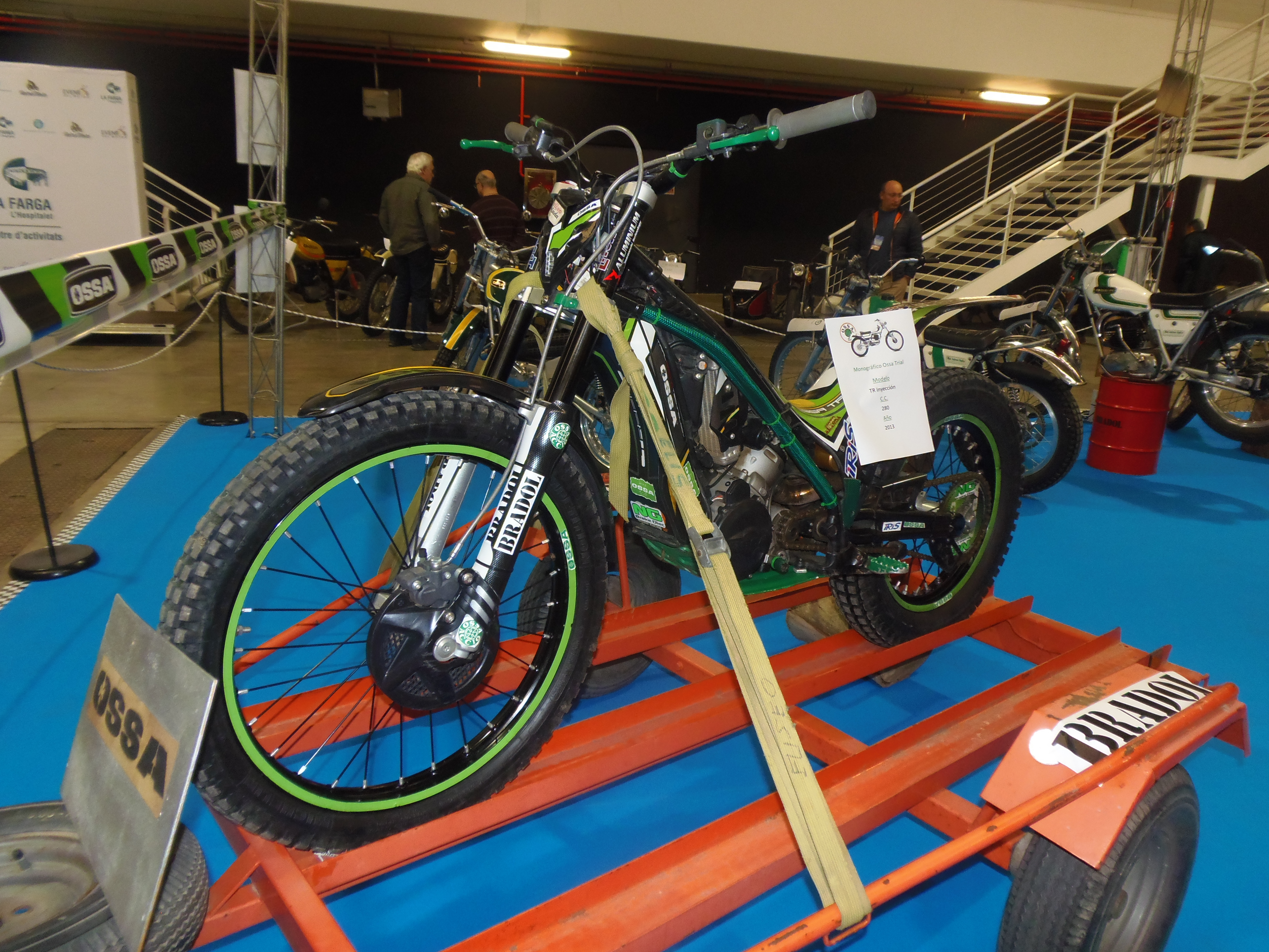 Ossa TRi 280, 2013